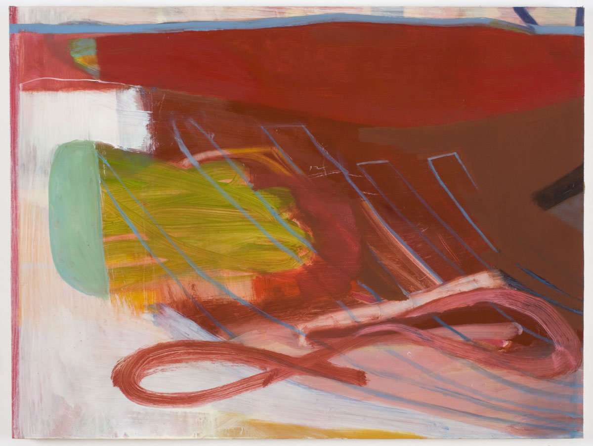 A photo of a painting by Julian Hatton. Date = date of upload; date of creation of painting is uncertain. Title of painting: "Slow Curve".